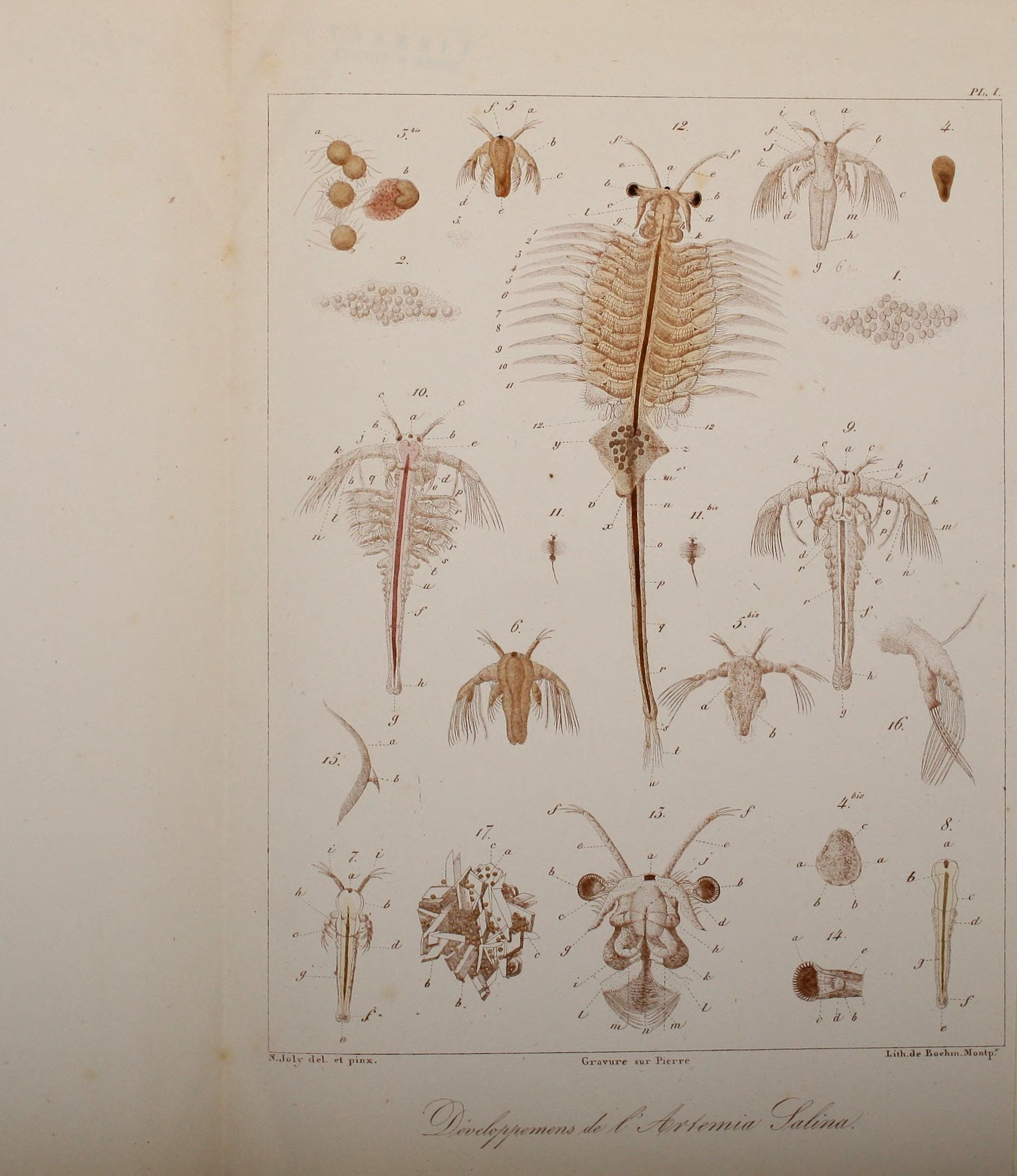 Histoire d'un petit crustacé. Montpellier,Boehm,1840.. Hello Sea Monkeys! These popular children's pets are actually the Brine Shrimp Artemia salina - eggs can survive 4 yrs